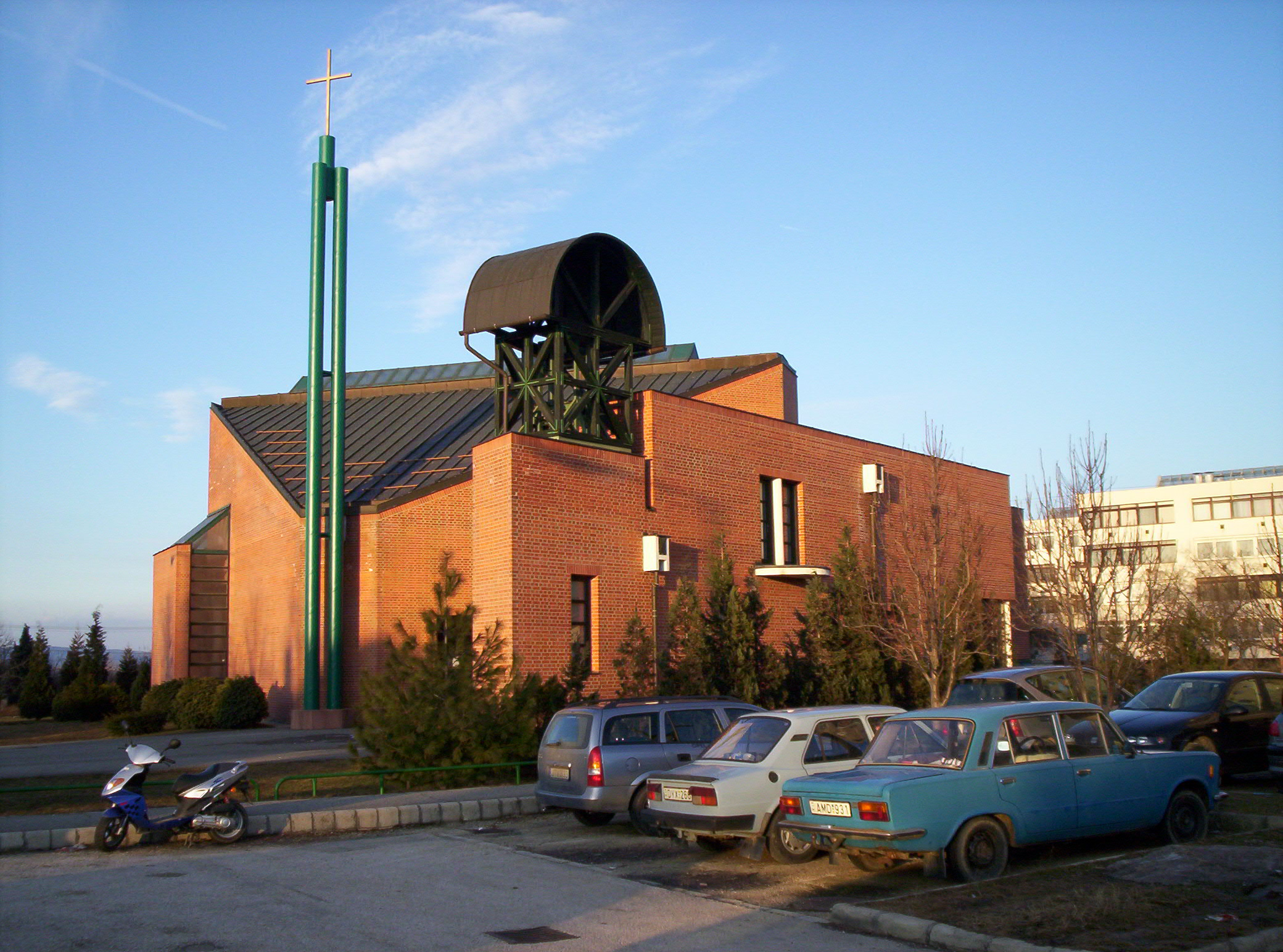 Description: Mindszenty József Memorial Church, Veszprém